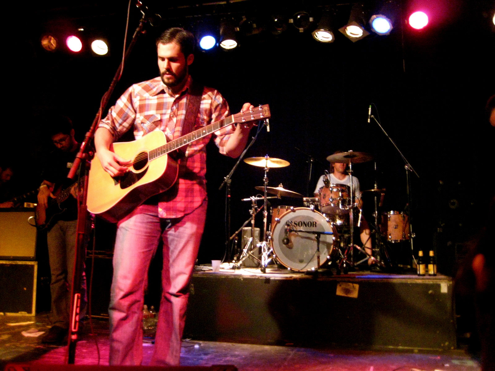 Indie USA rockers Dear and the Headlights live in 2011